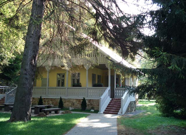 Hause of Otto Herman, Miskolc-Lillafüred, Hungary This is a photo of a monument in Hungary, Identifier: 2994